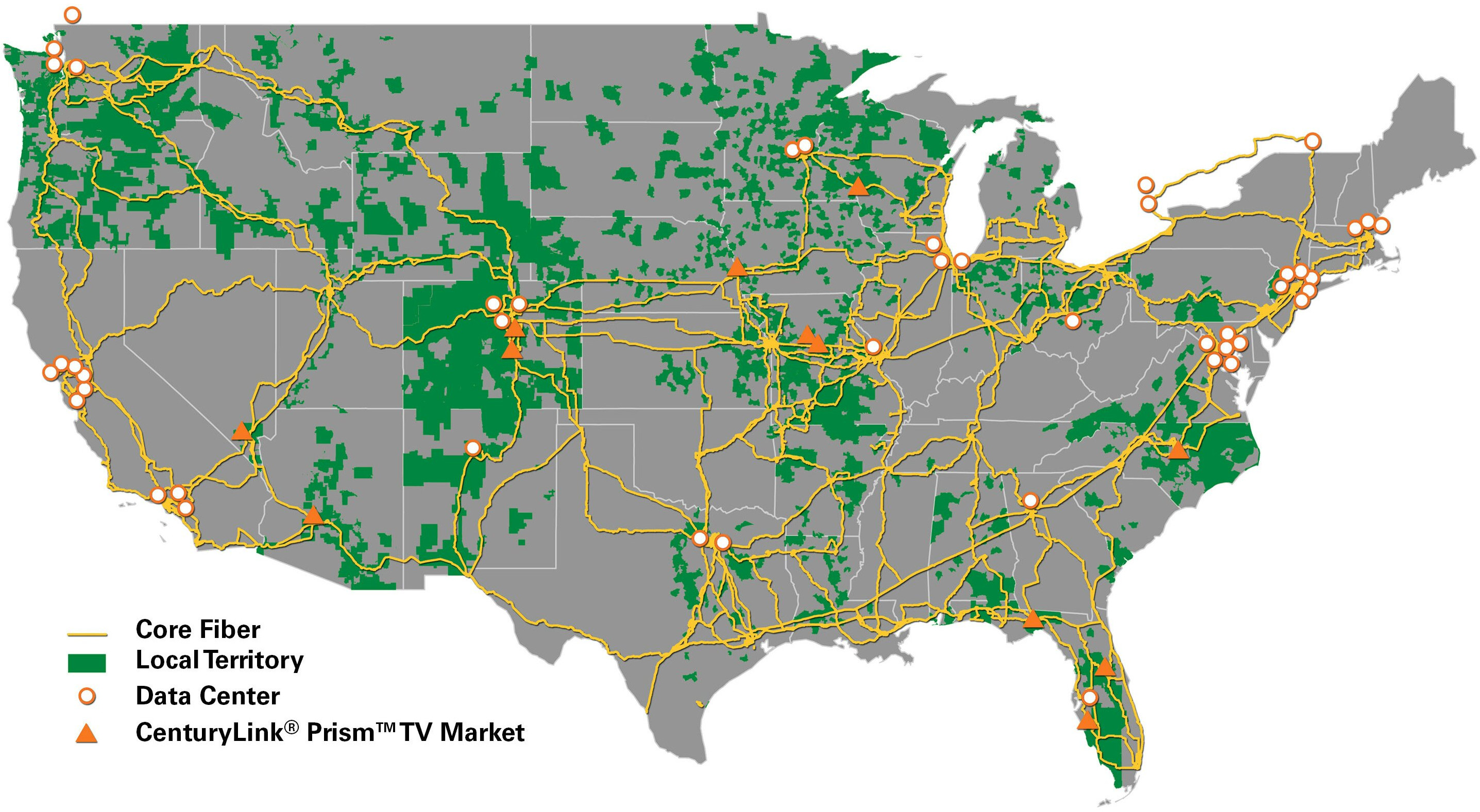 usa map background